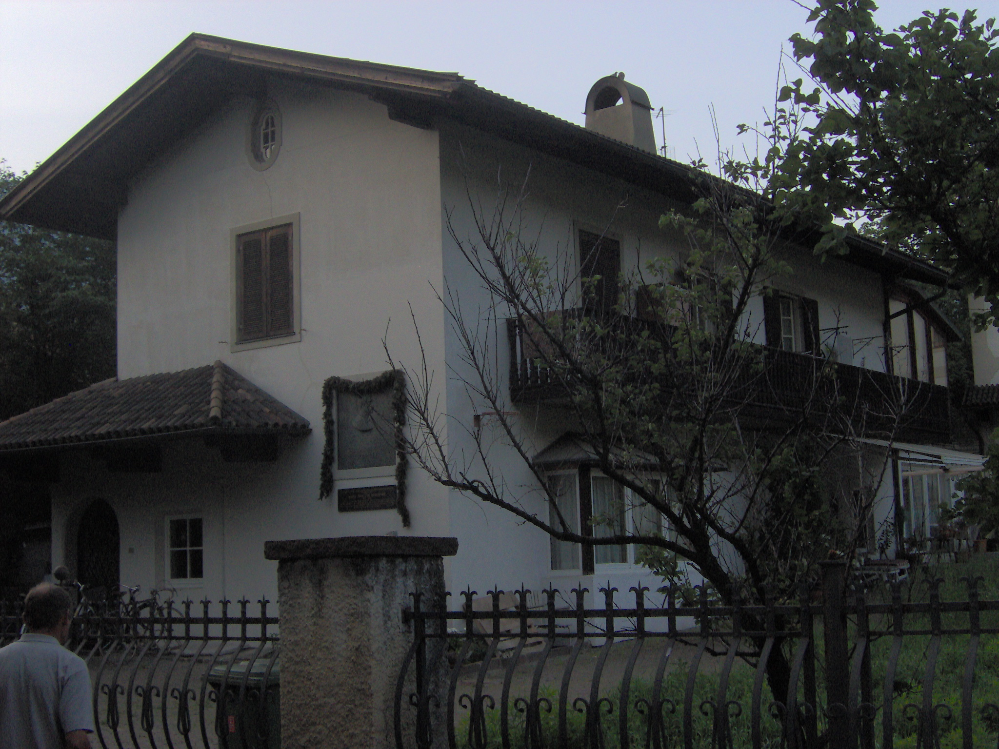 House of Karel Havlíček Borovský in Brixen.